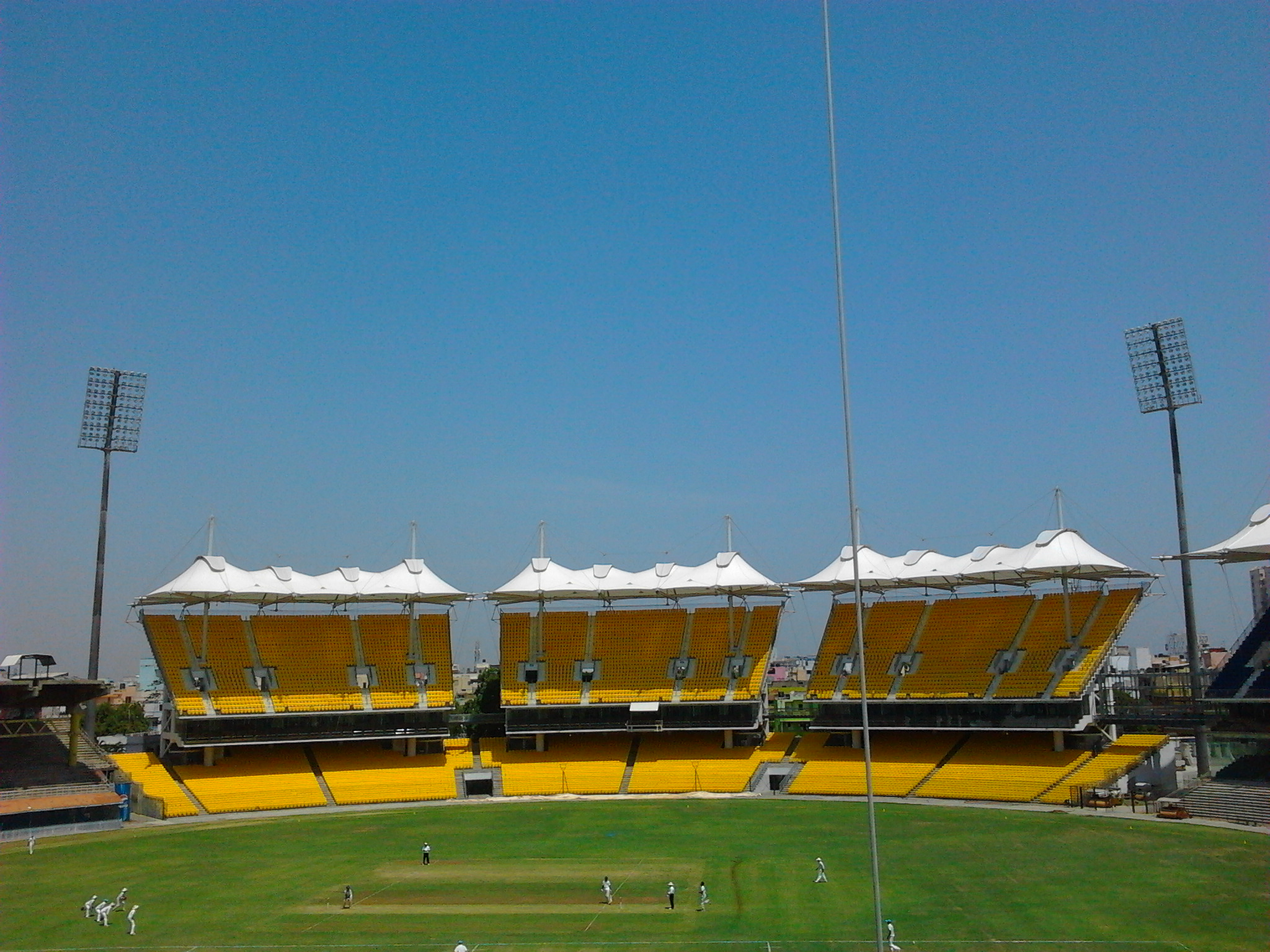 New stands with fabric tensile rooves at the M. A. Chidambaram Stadium. Picture taken during a Division 1 game.